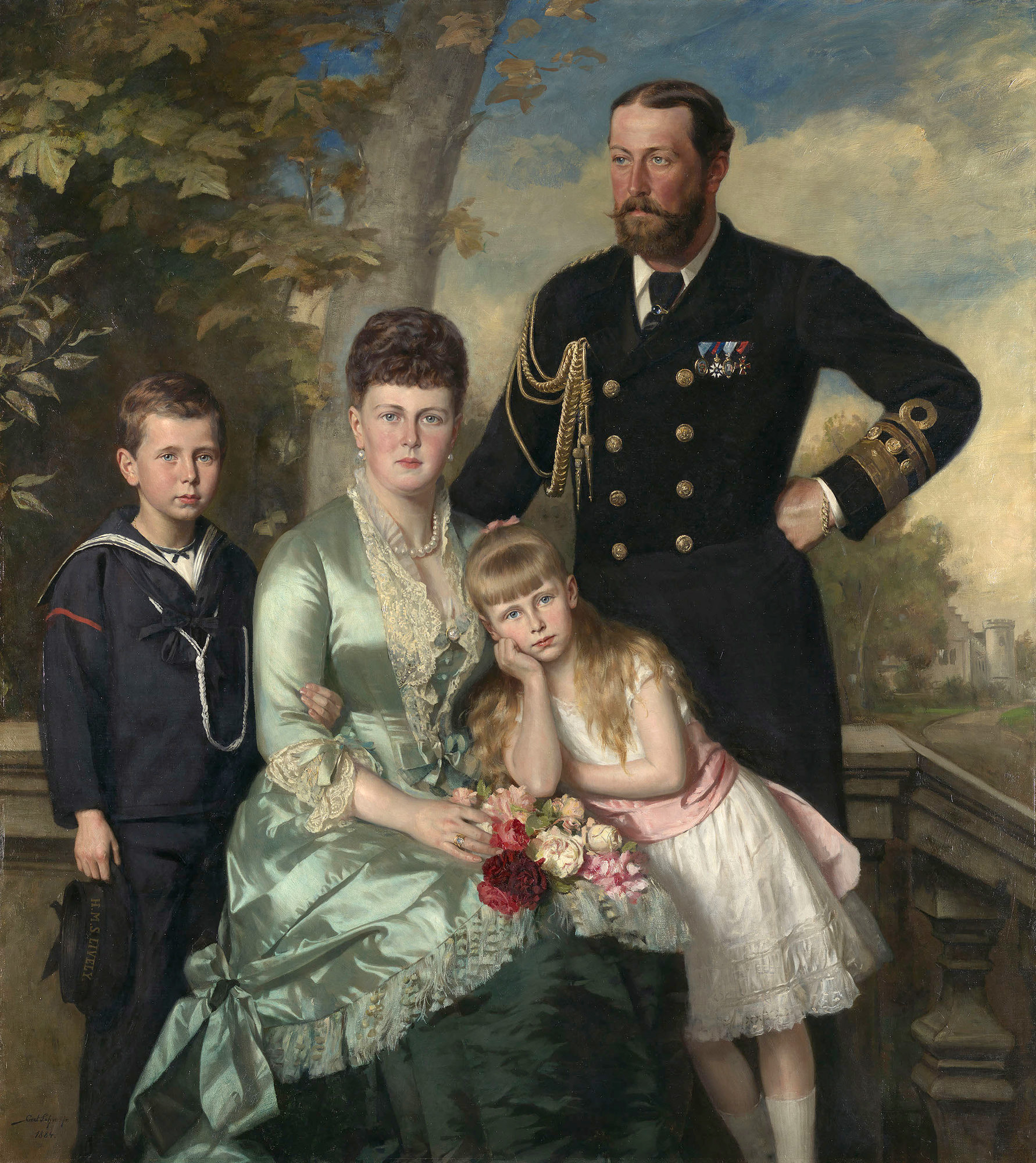 Carl Rudolph was the son of Carl Ferdinand Sohn (1805-1867); the father was known to Queen Victoria through his portrait of the Queen of Hanover (RCIN 405078); the son was employed by members of the Royal Family 1882-6. Alfred, Duke of Edinburgh (1844-1900) was Queen Victoria’s fourth child. He is depicted here with his wife, Marie, and their two children, also called Alfred and Marie. The Duke is in the morning dress uniform of a Vice-Admiral and wearing the badges of St Patrick, St Michael and St George, the Star of India and St Vladimir of Russia. The Duchess was not at all happy about having her portrait painted. She wrote in a letter: ‘Another dreadful bore awaits me. The Queen has sent over her new court painter, Herr Sohn, who must produce a family group of the Duke, myself, and our two eldest children! This is an aggravation of sorrow that fell upon me like a shell. I am simply furious: besides hating the long sittings, I dislike still more having my pig-like face reproduced on canvas and handed over to posterity. When I was a nice, lively, thin and fresh young lady, I did not mind it so much, but now! His first sketch of me is monstrous as he was provided by the Queen with the most atrocious photographs that were ever made of me. I was so horrified that I could not conceal it and the poor man does not quite know what he is to think about the whole business.’